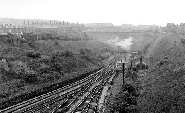 Bowling Junction Station (remains). Near to Bradford, Great Britain. View southward, towards Low Moor; ex-L&Y main lines into Bradford Exchange. The lines on the left come Bradford Exchange, those on the right are an ex-GNR loop from Laisterdyke (closed 9/6/69). The station was closed on 3/12/51, but the line from Bradford remains, now (since 1/73) coming from Bradford Interchange.